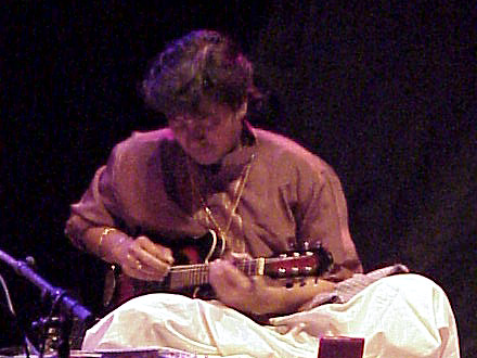 U. Srinivas at the Remember Shakti Concert, Munich, Germany, Bayrischer Hof 2001